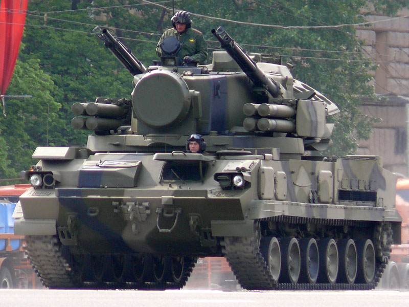 9K22 Tunguska.